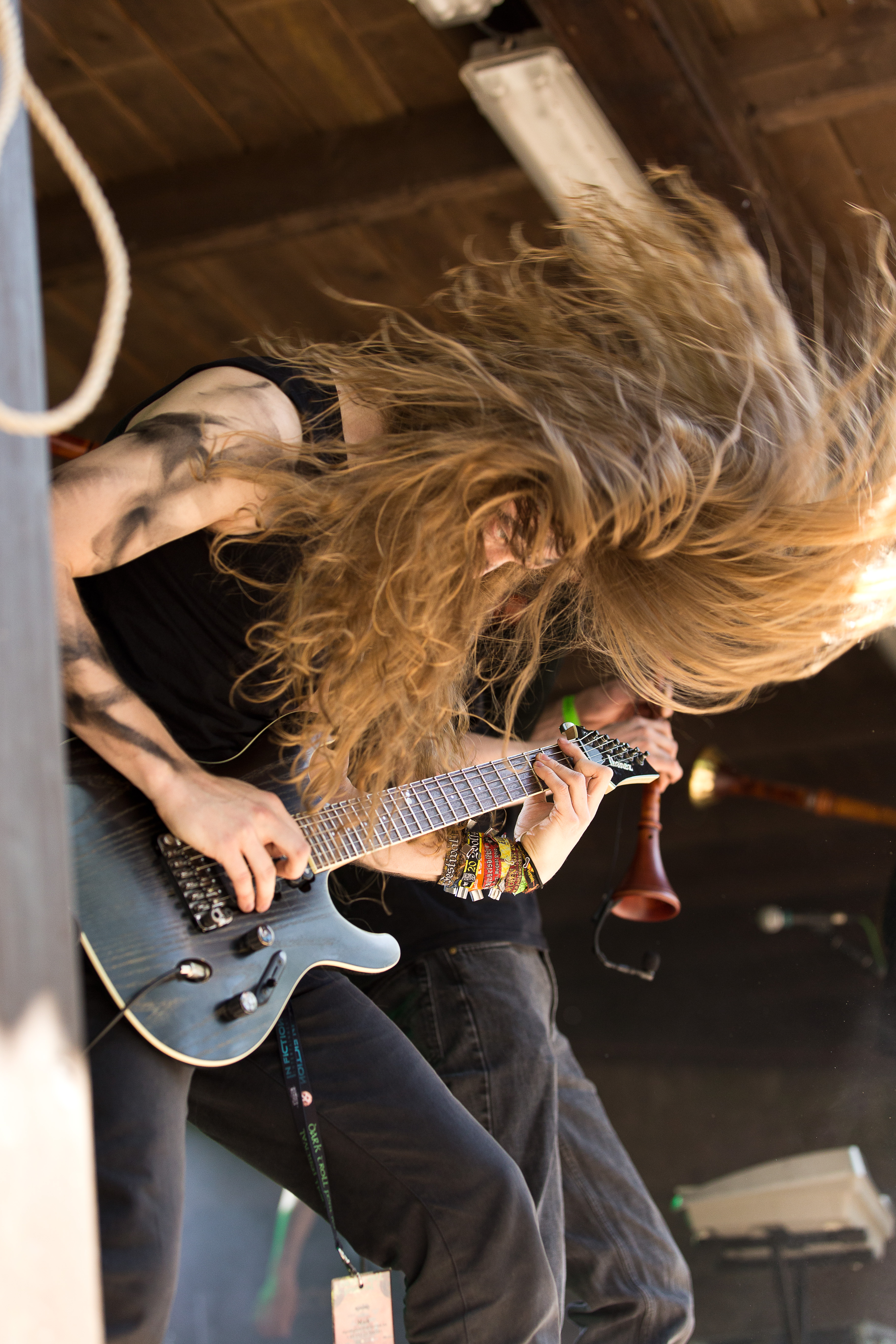 The German folk metal band Dvalin at the Dark Troll Open Air 2016 in Bornstedt/Germany.